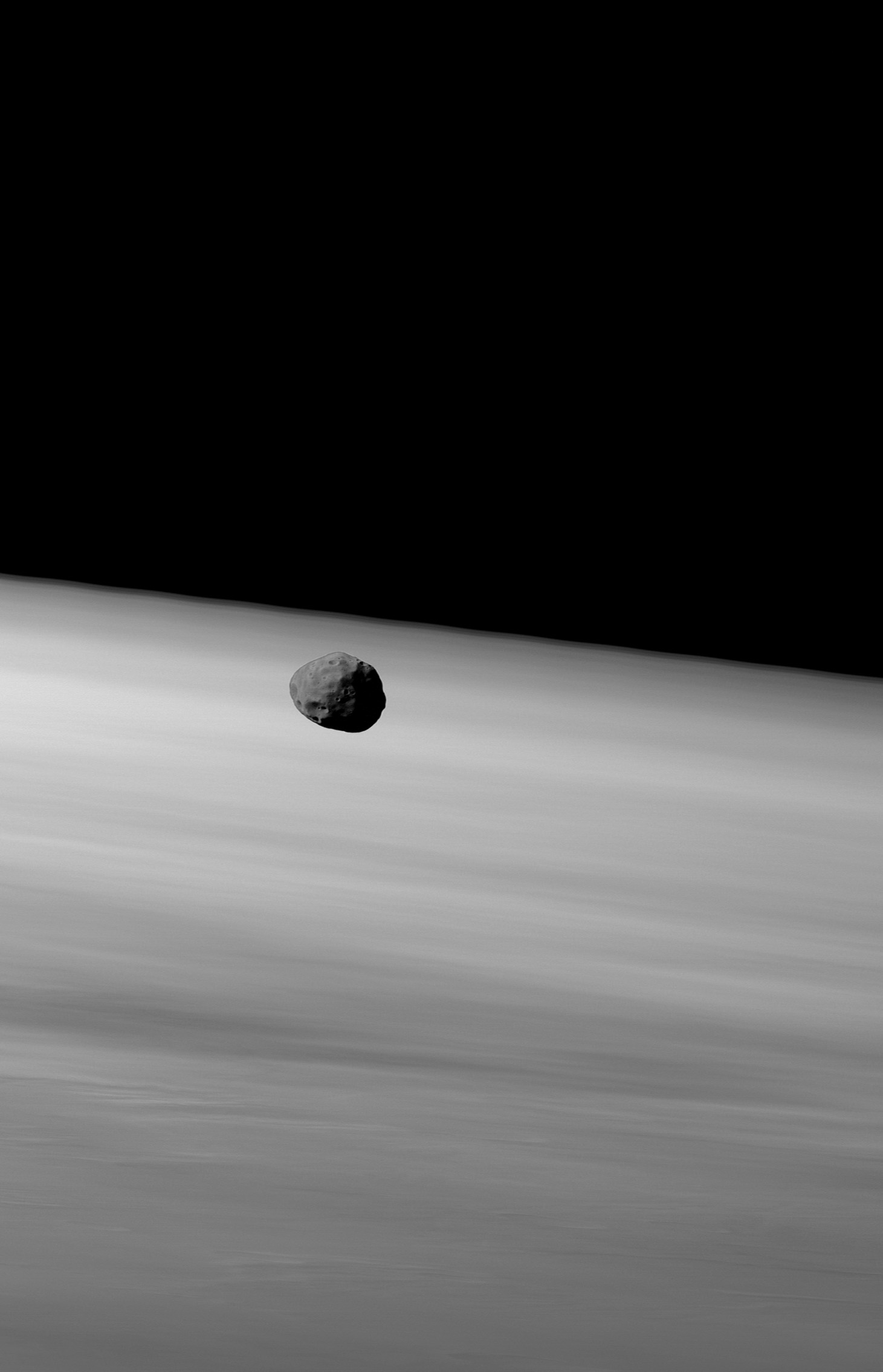 This image was taken by the HRSC instrument aboard Mars Express and shows the Martian moon Phobos.